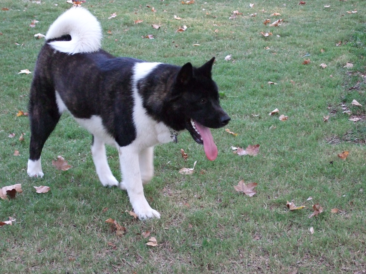 An eight-month-old black-and-white Akita Inu